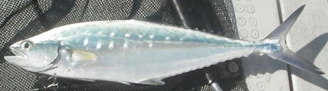 Scomberoides lysan, taken from Port Douglas, QLD